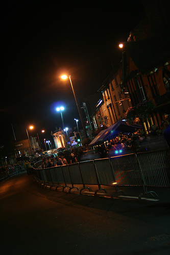 Night view of High Street, Newport, Shropshire during the road bicycle race Shropshire Star Newport Nocturne